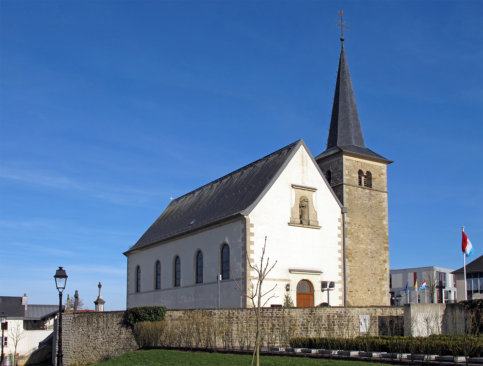 Church of Frisange, Luxembourg